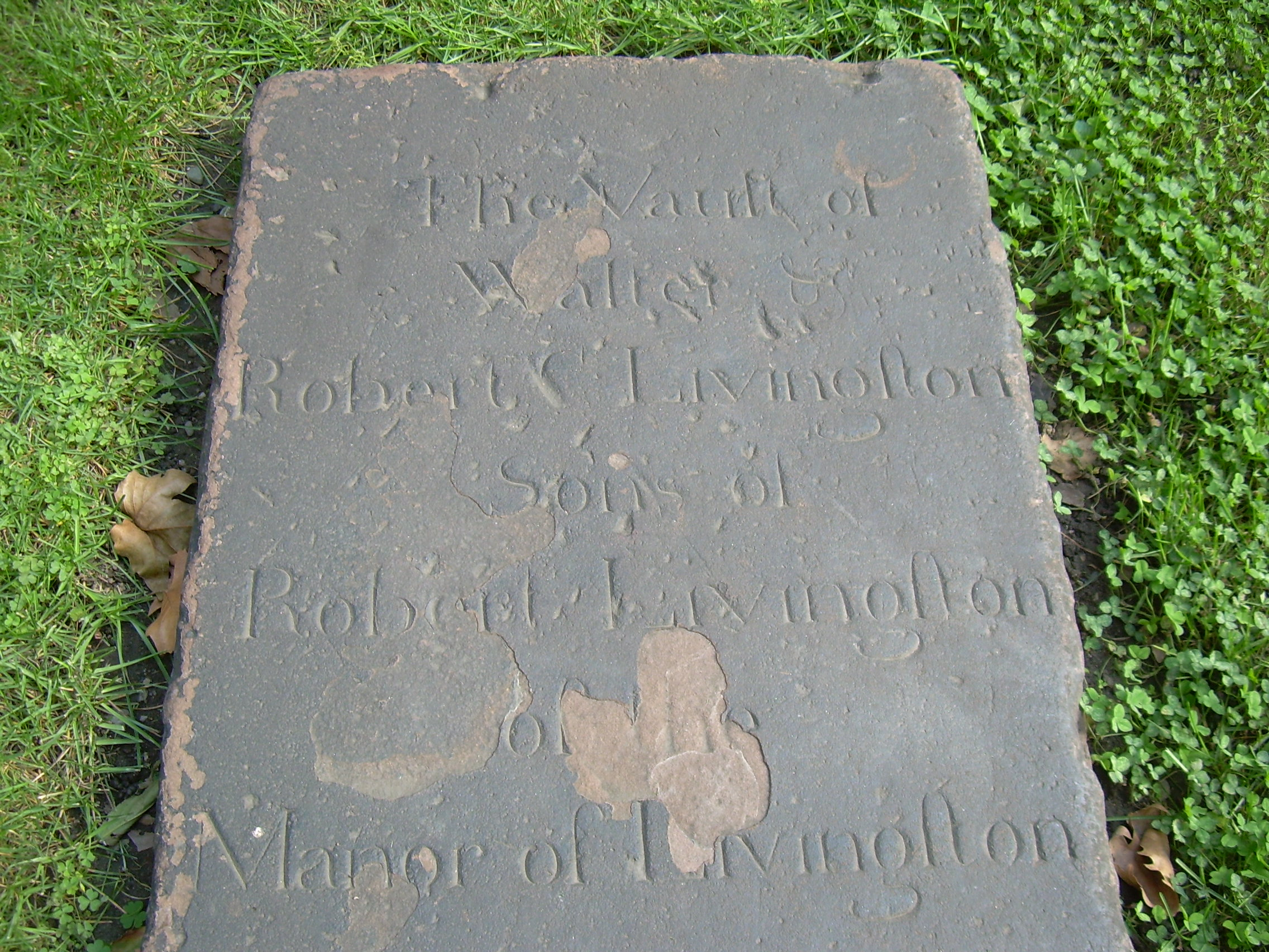 This photo is of Wikis Take Manhattan goal code G11, Walter Livingston.